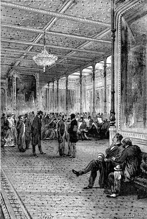 An illustration from Jules Verne's novel "A Floating City" (1869) drawn by Jules Férat.